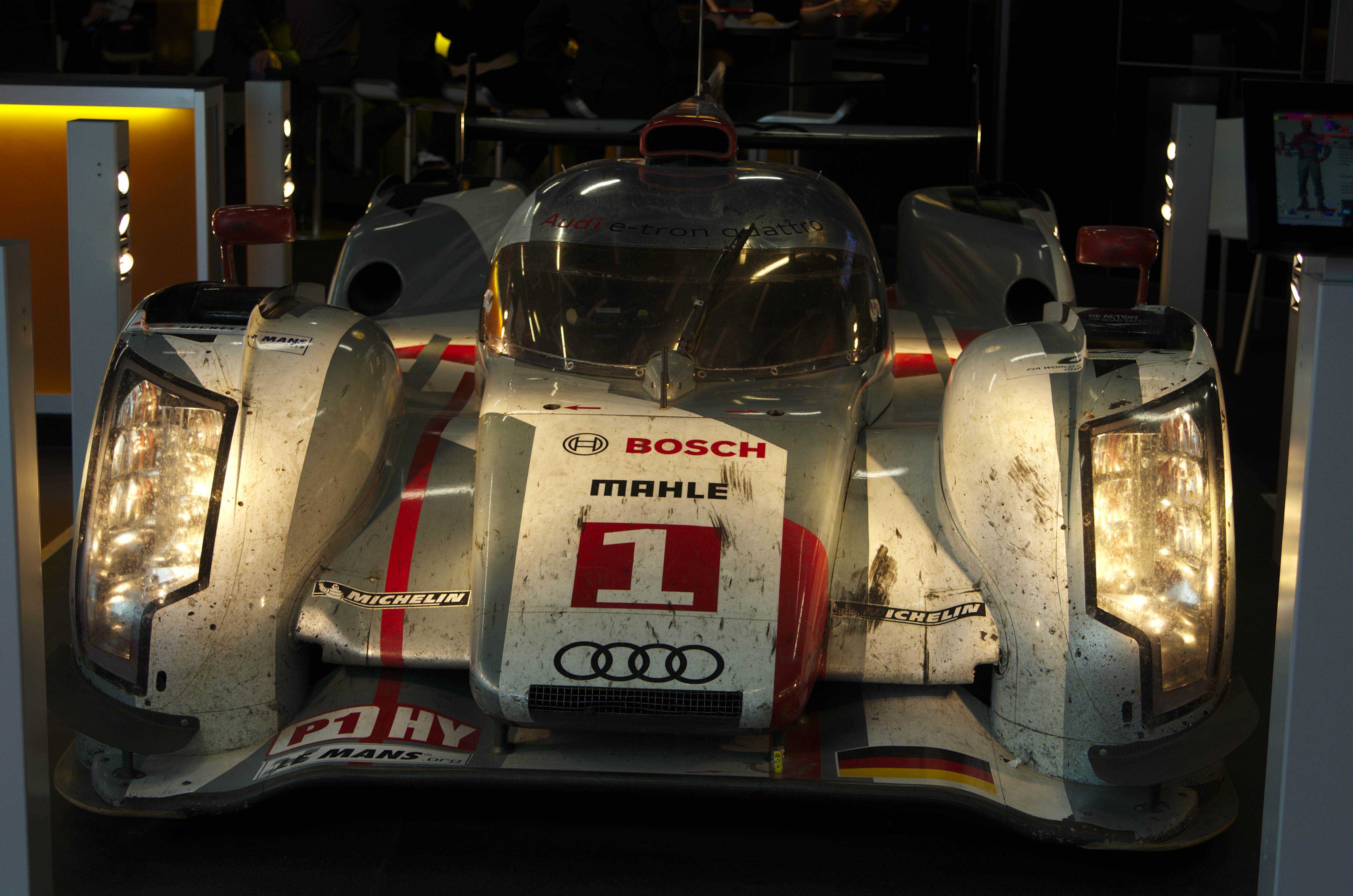 Geneva MotorShow 2013 - Audi e-tron quattro Le Mans